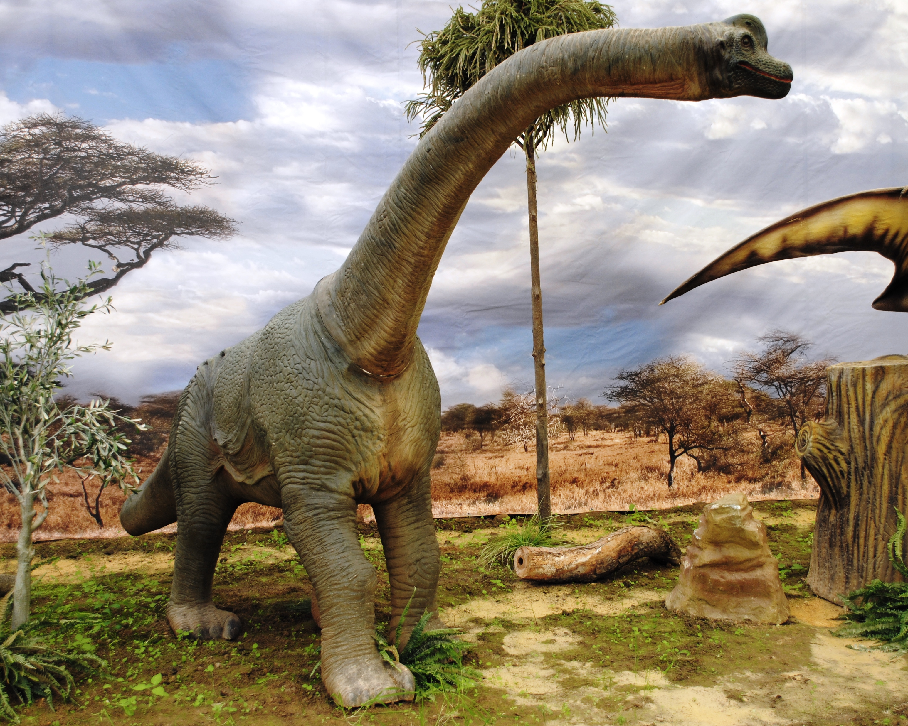 Dinosaurios Park, Brachiosaurus young